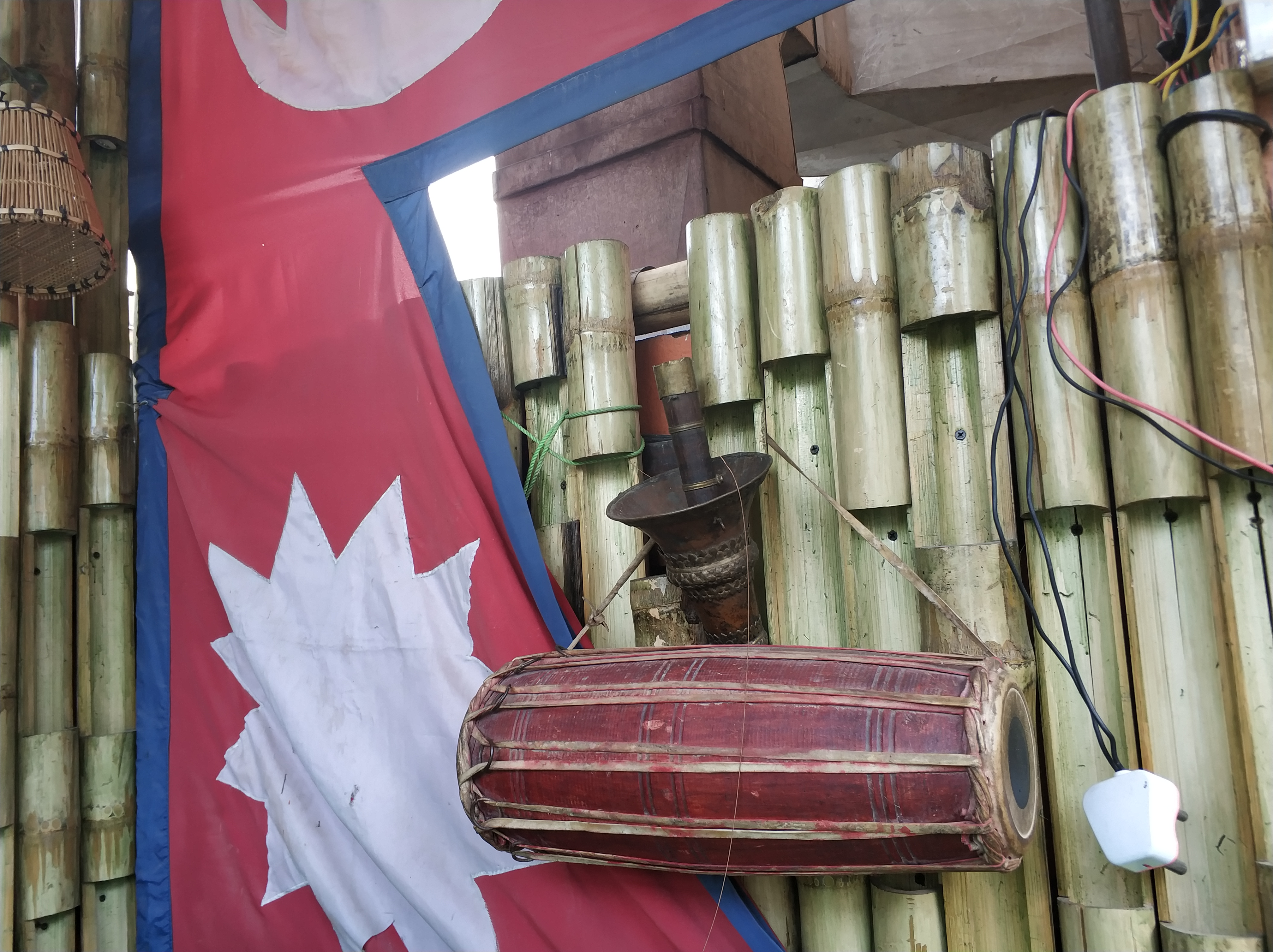 The Madal (Nepali: मादल), is used mainly for rhythm-keeping in Nepalese folk music, is the most popular and widely used as hand drum in Nepal. नेपाली: मादल नेपालको एक प्रसिद्ध ताल बाजा हो। यो नेपाली समाजको मुख्य बाजा पनि हो । नेपाली समाजको सबै जसो सांस्कृतिक कार्यहरूमा यसको प्रयोग हुन्छ । डोटेली: मादल नेपालो एक प्रसिद्ध बाजो हो ।